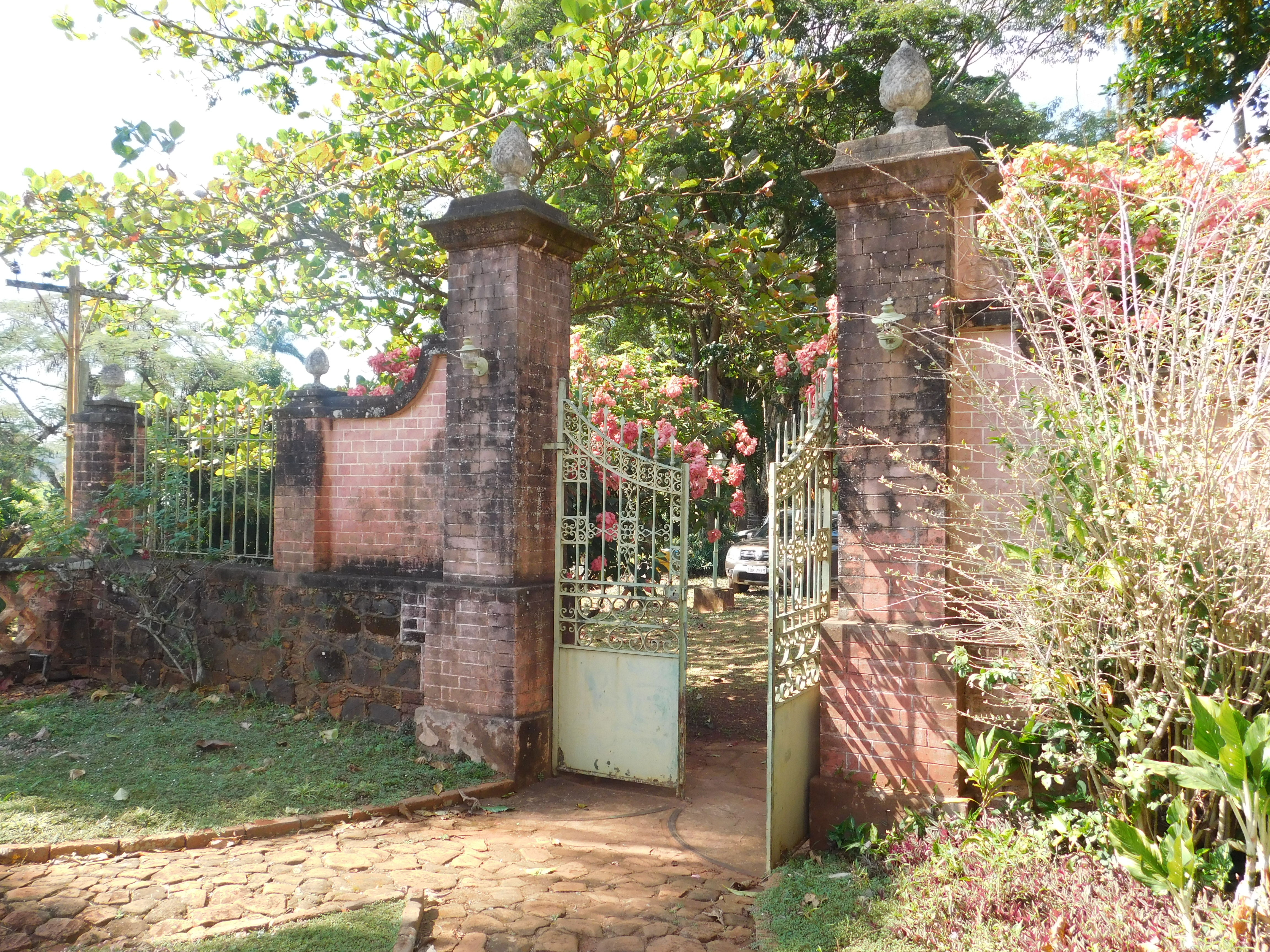 Santa Maria do Monjolinho is a famous ancient Brazilian coffee farm, located at the city of "São Carlos". Read more on its official website.